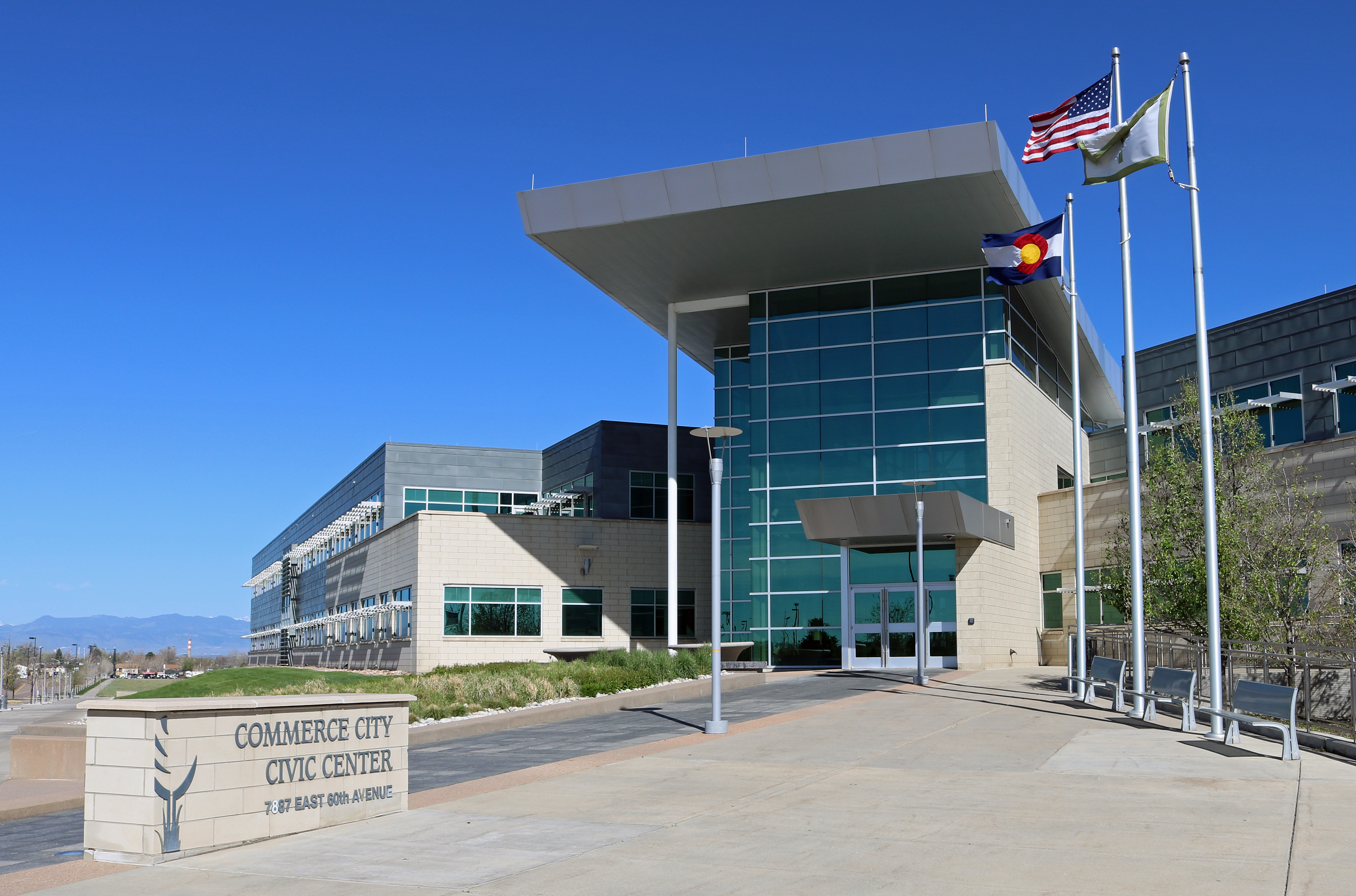 The Commerce City Civic Center, located at 7887 East 60th Avenue in Commerce City, Colorado.